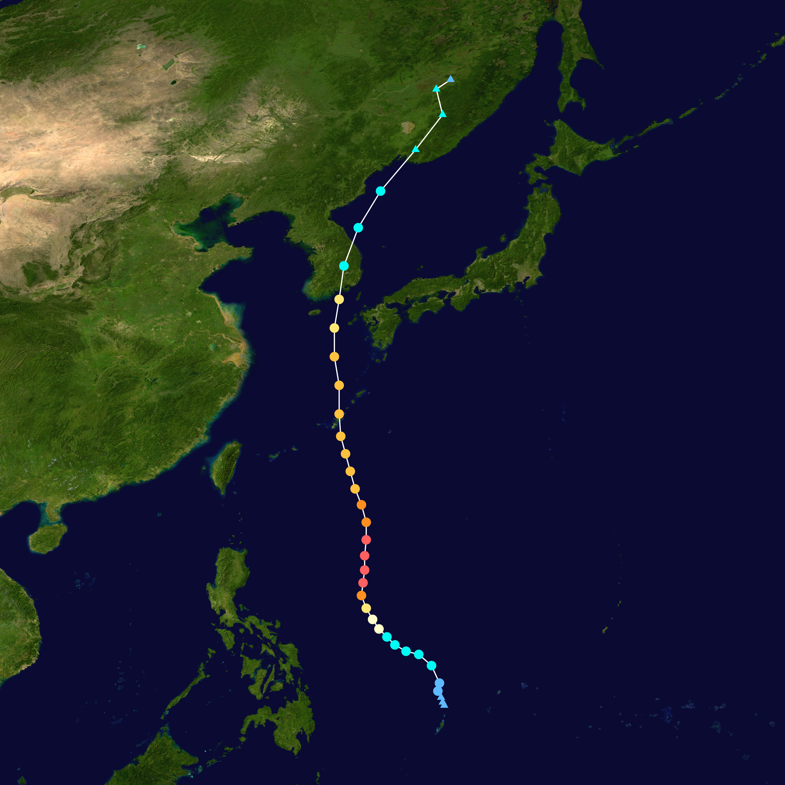 Track map of Typhoon Sanba of the 2012 Pacific typhoon season. The points show the location of the storm at 6-hour intervals. The colour represents the storm's maximum sustained wind speeds as classified in the Saffir–Simpson scale (see below), and the shape of the data points represent the nature of the storm, according to the legend below. Saffir–Simpson scale Tropical depression≤38 mph≤62 km/h Category 3111–129 mph178–208 km/h Tropical storm39–73 mph63–118 km/h Category 4130–156 mph209–251 km/h Category 174–95 mph119–153 km/h Category 5≥157 mph≥252 km/h Category 296–110 mph154–177 km/h Unknown Storm type Tropical cyclone Subtropical cyclone Extratropical cyclone / Remnant low / Tropical disturbance / Monsoon depression